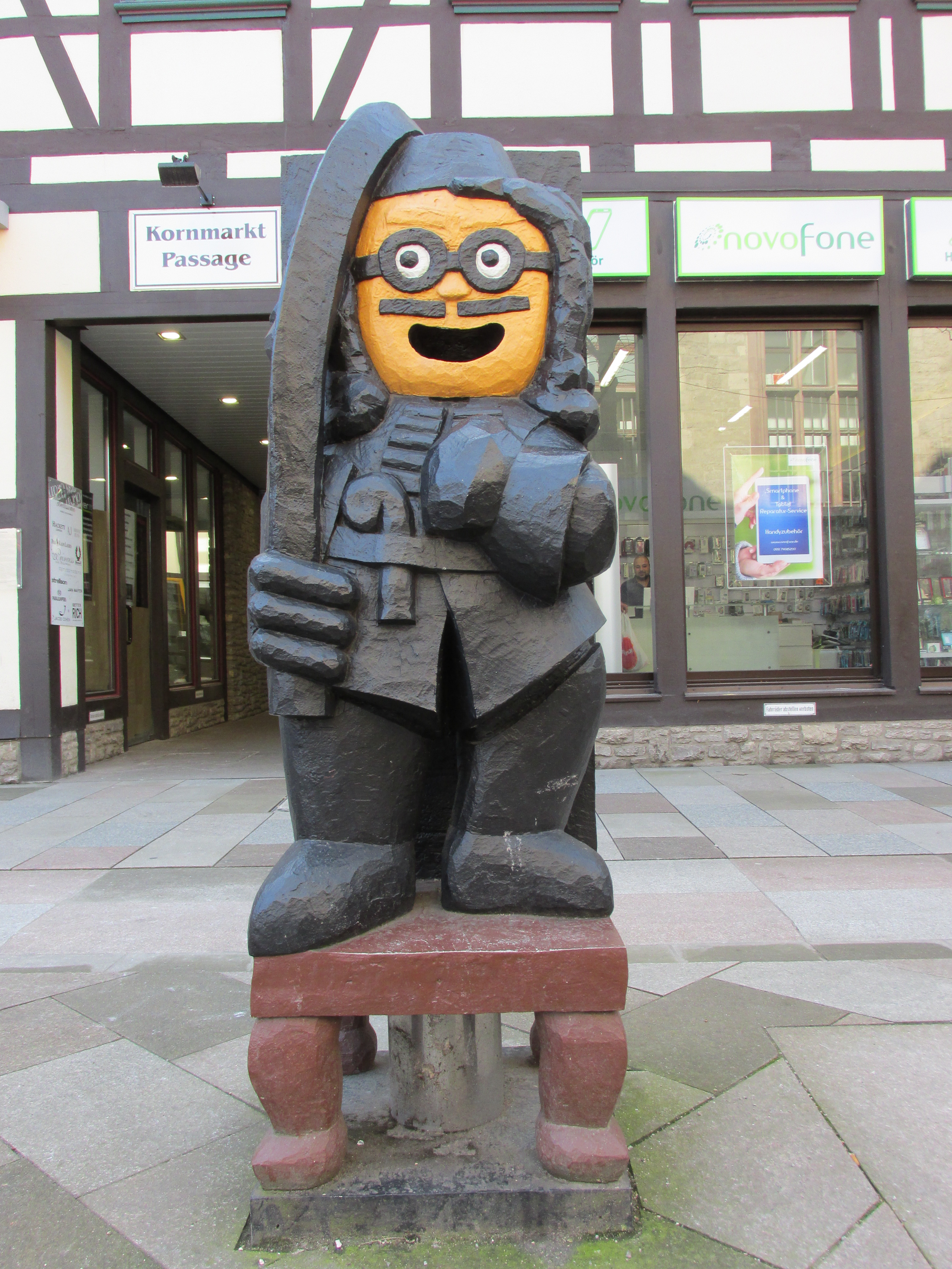 Göttinger Erhebung by Andreas Welzenbach, Göttingen, Germany check usage